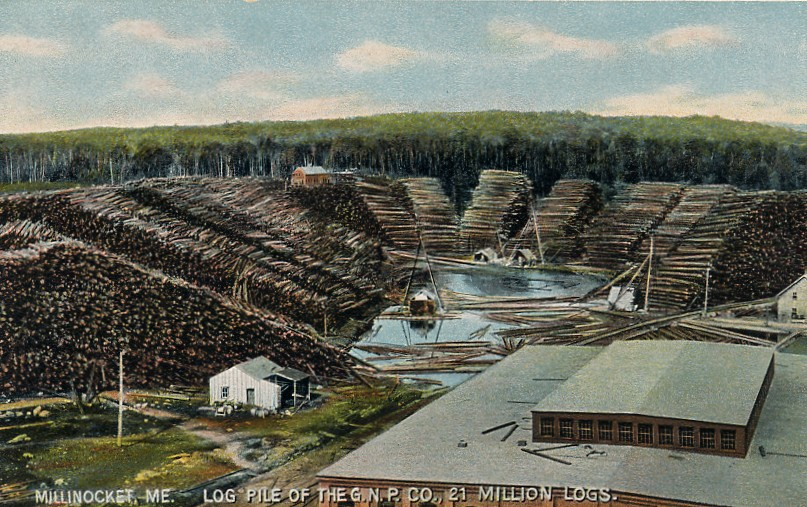 Log pile (21 million logs) of the Great Northern Paper Company — in Millinocket, Penobscot County, Maine.